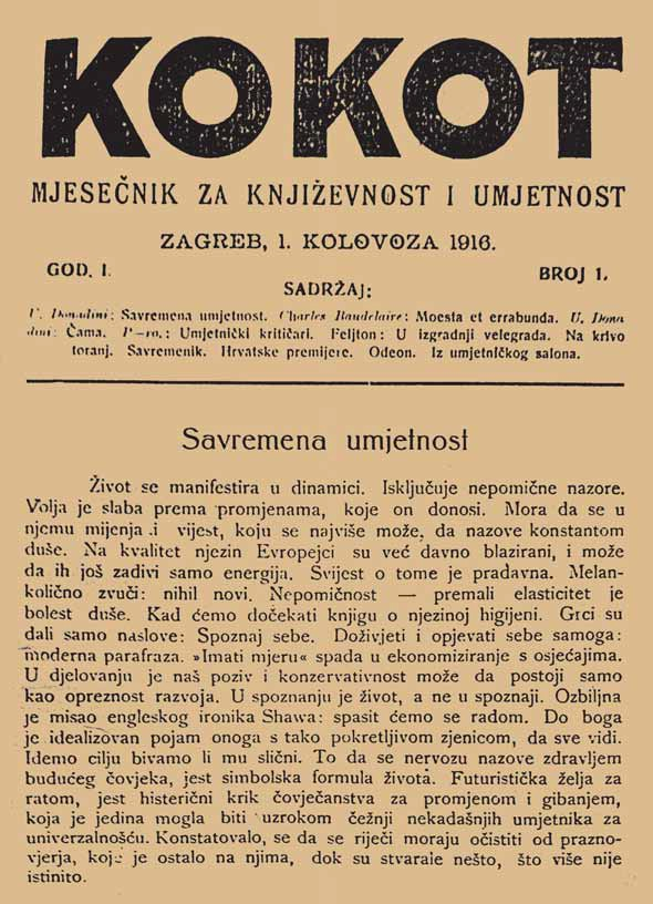 Front page of the first issue of Kokot, a Croatian literary journal.